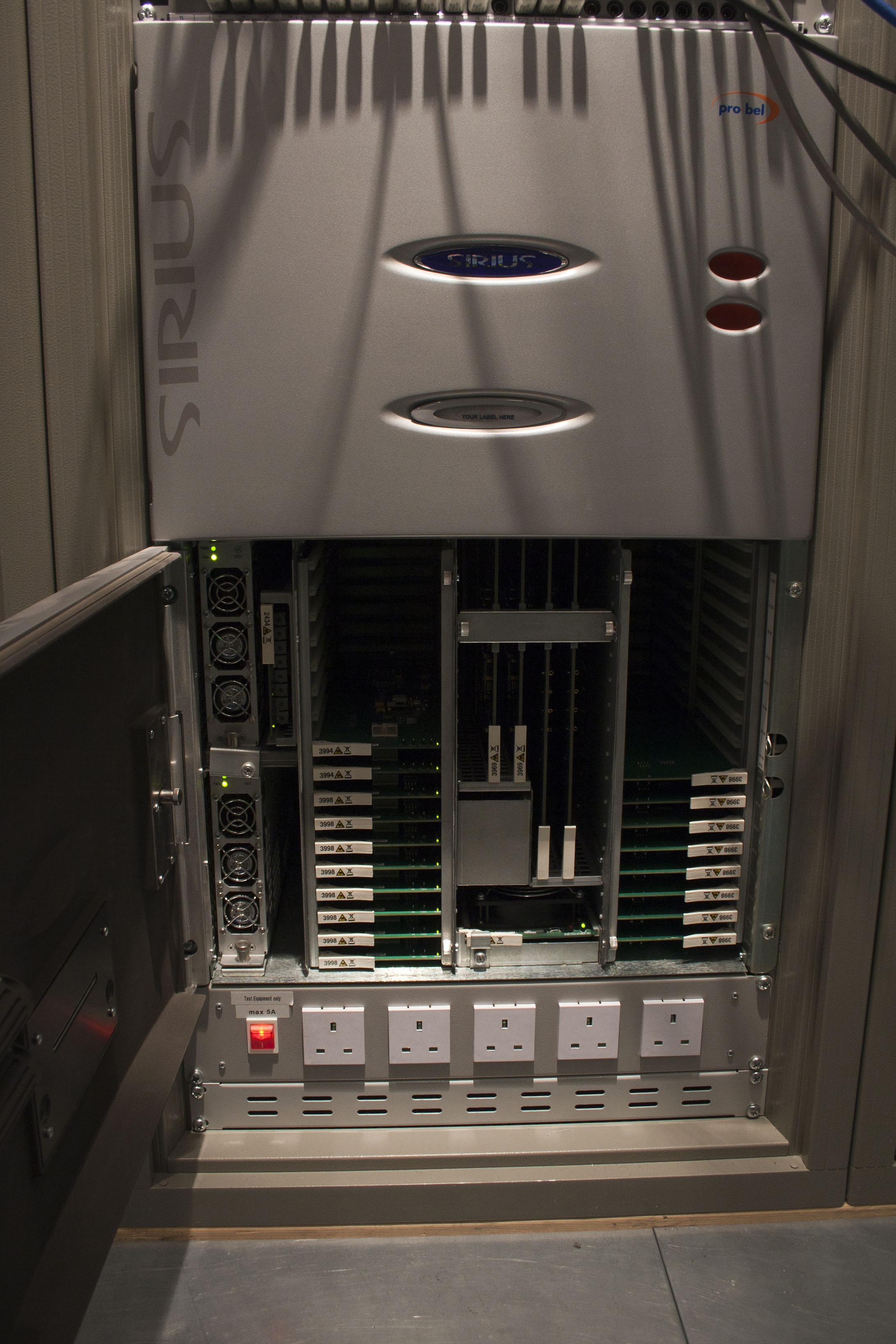 Two Probel Sirus Video Matrix crates, with individual cards show.